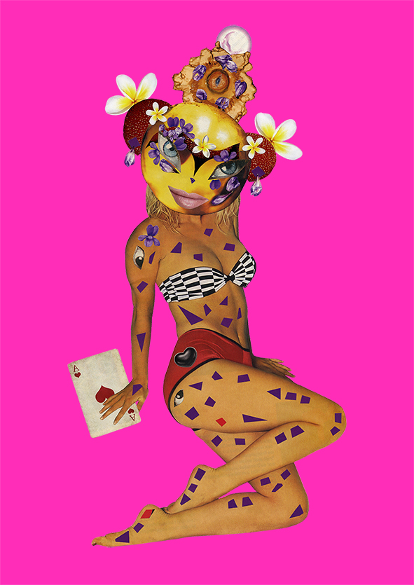 Imants Daksis collage